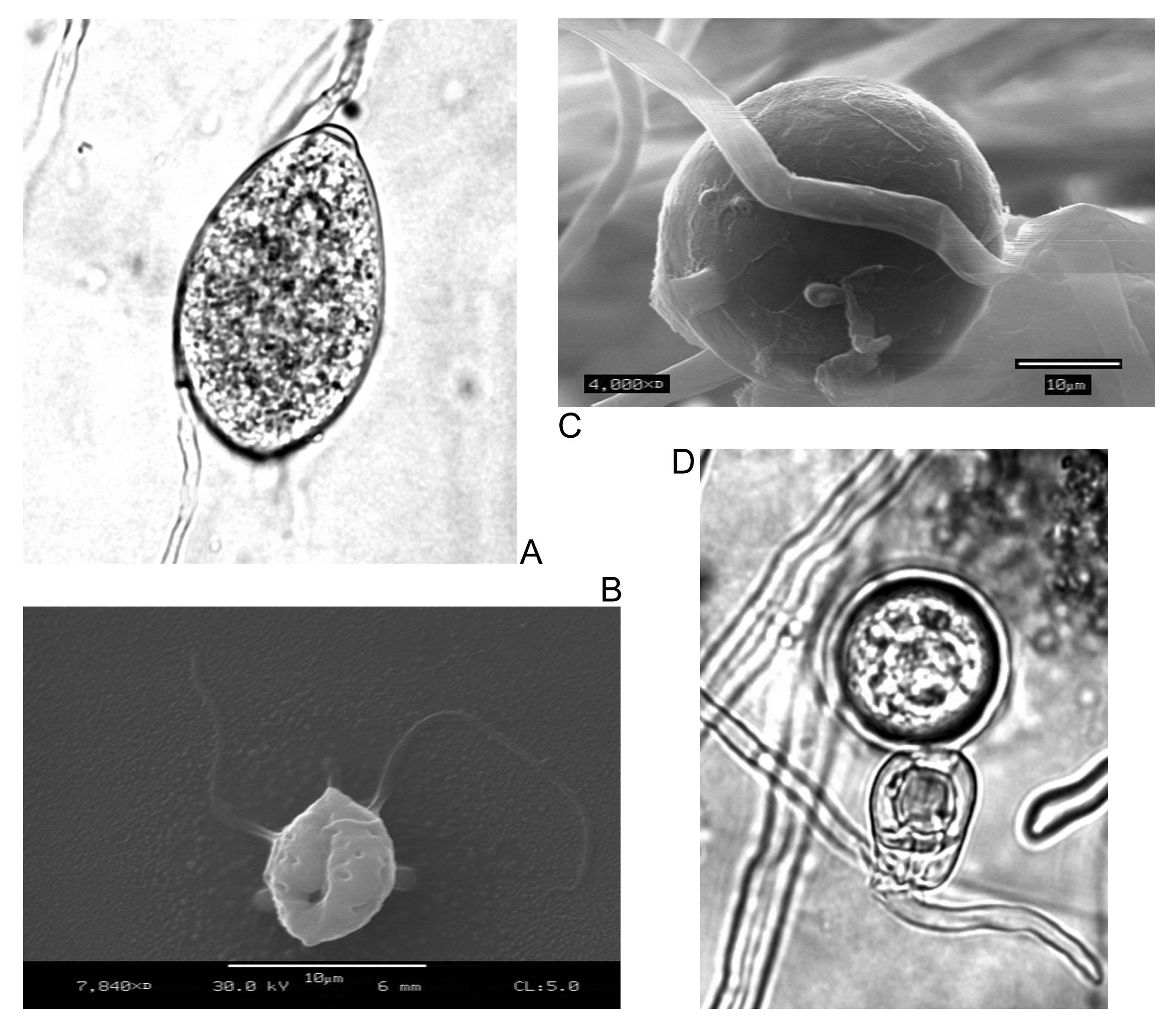 Reproductive Structures of the Phytophthora. The asexual (A) sporangia, (B) zoospores, and (C) chlamydospores, and the sexual (D) oospores.